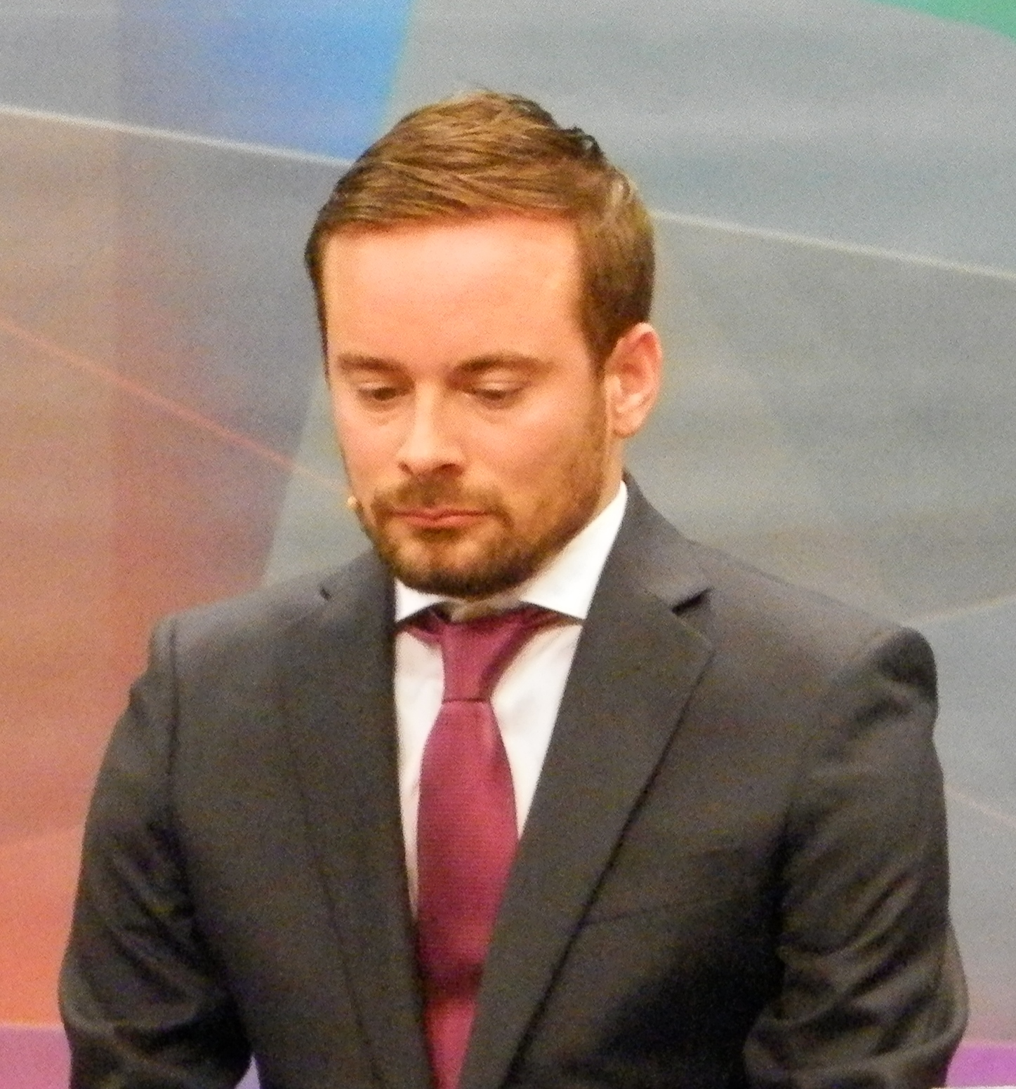 Hanus Samró is a Faroese politician and writer. He is member of the Faroese parliament for Fólkaflokkurin since 2011.